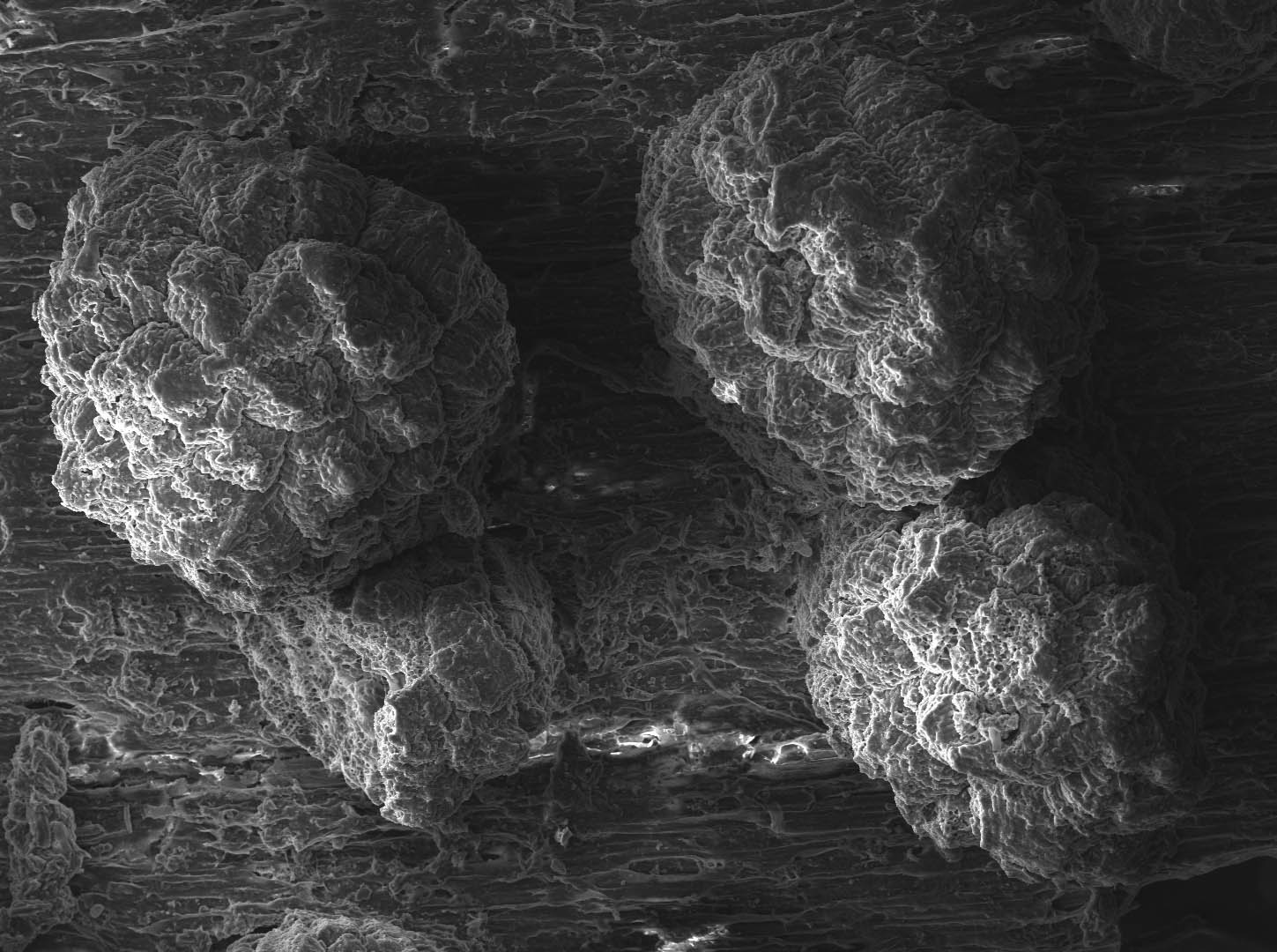 Bertia latispora